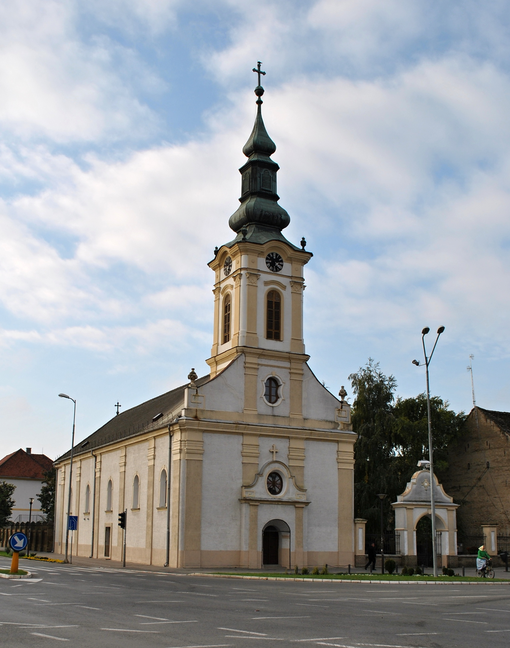 Stara Pazova, Serbia - Slovak Protestant Church, state in 2015